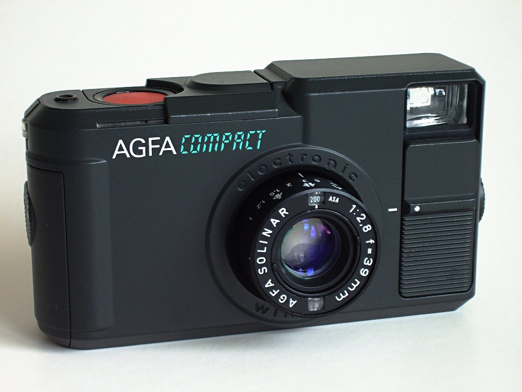 "Agfa compact" camera. Film type 135. Automatic exposure control. Manual focus. One of the worlds first 135 compact with integrated motor driven film transport. Probably the last type of cameras that Agfa ever made in Munich.